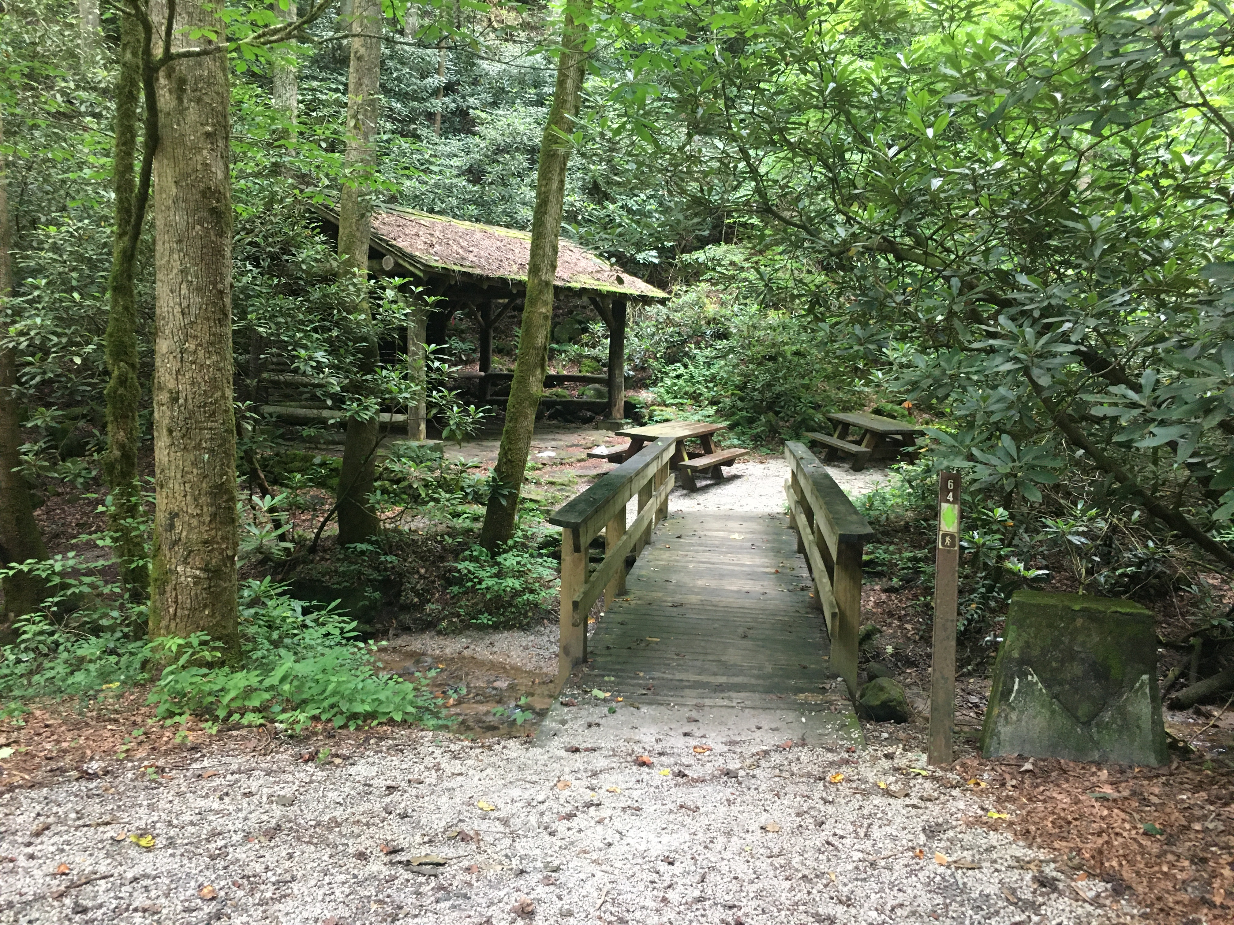 Day use area in Warwoman Dell, Chattahoochee-Oconee National Forest, Georgia in June 2020